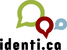 Logo for Identi.ca